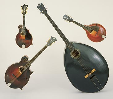 Gibson mandolin orchestra 1920 Gibson F-4 mandolin 1917 Gibson H-2 mandola 1924 Gibson K-4 mandocello 1929 Gibson mando-bass